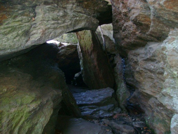 Inside the Leatherman Cave in Watertown, CT.